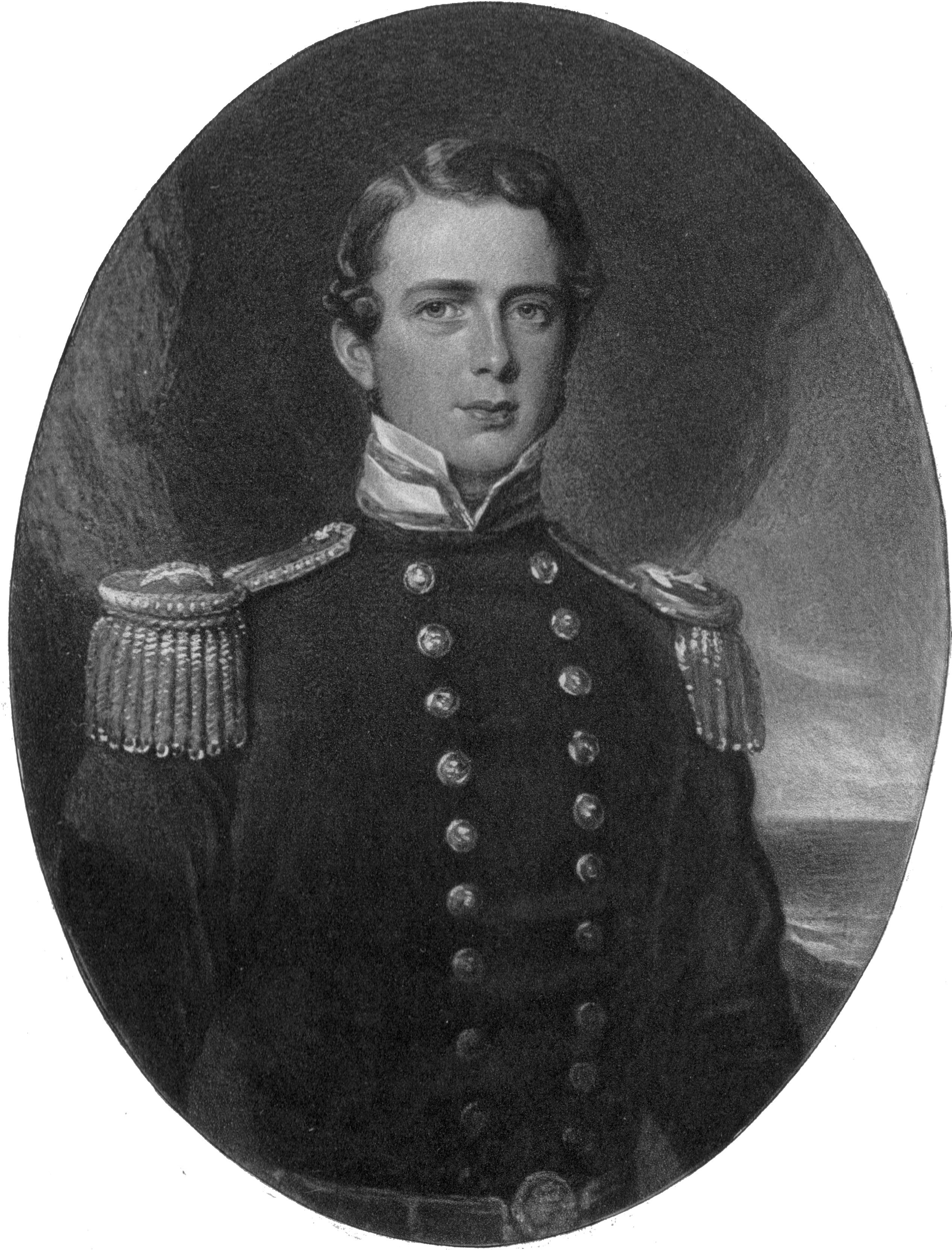 George Tryon (4 January 1832- 22 June 1893). British Vice-Admiral. From an original miniature by Easton reproduced by Walker and Boutall Photographic Society (a photographic engraving firm based at 16 Cliffords Inn, London E.C. from 1888-1900)